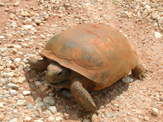 Gopherus polyphemus from the Appalachians.